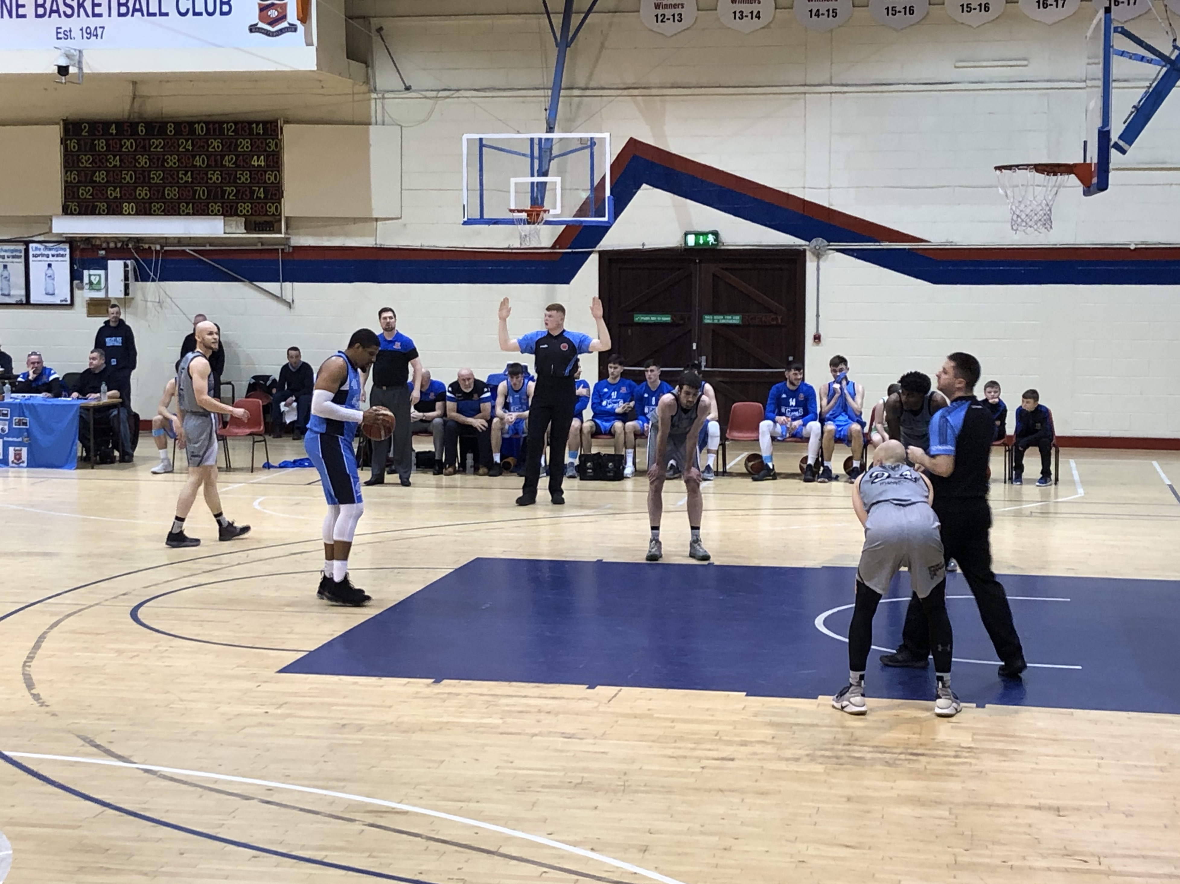 Neptune vs Tralee Warriors, Neptune Stadium, 2018/19 Irish Super League